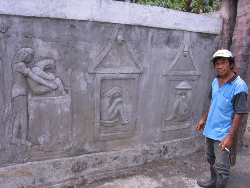 Waruga, Airmadidi, Sulawesi, Indonesia